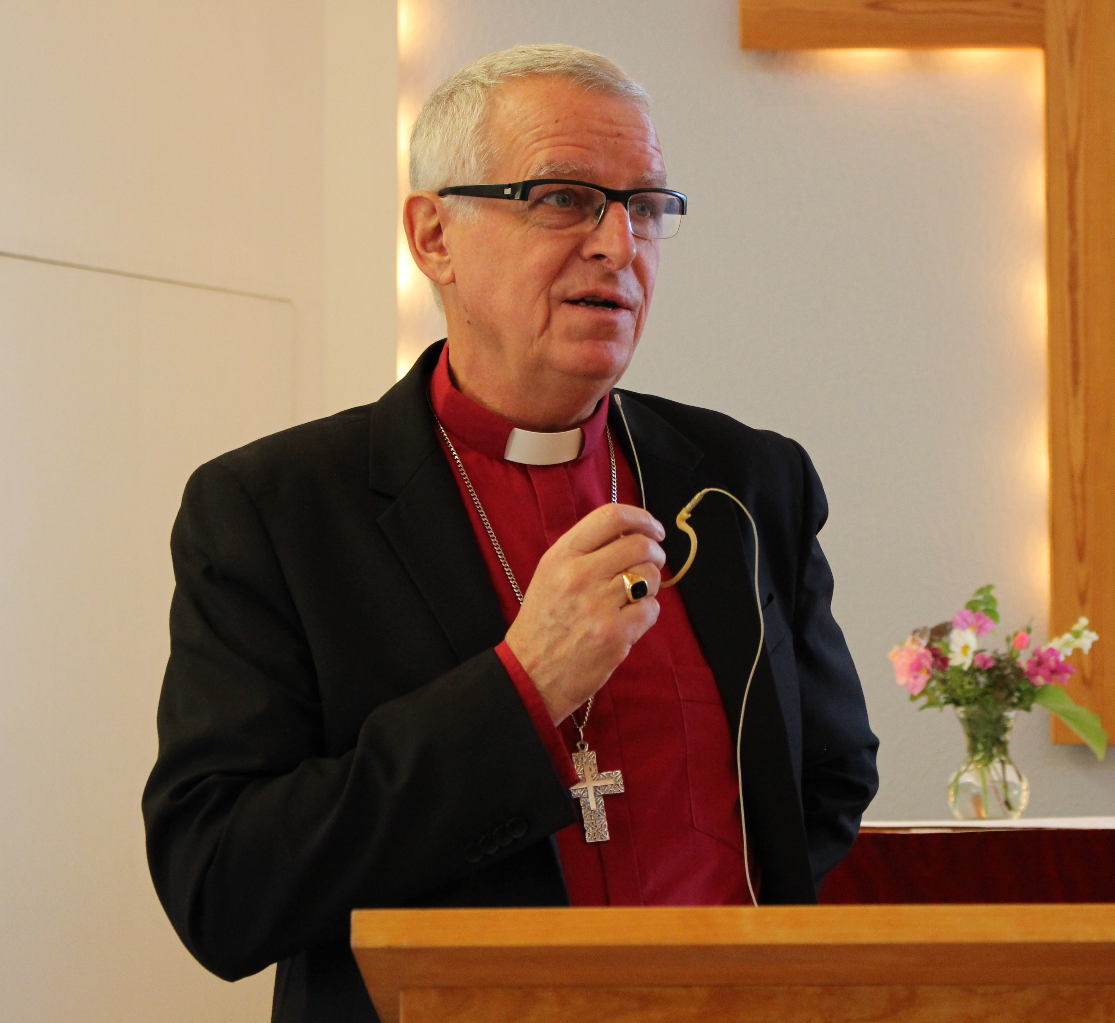 Bishop Roland Gustafsson, Missionsprovinsen.